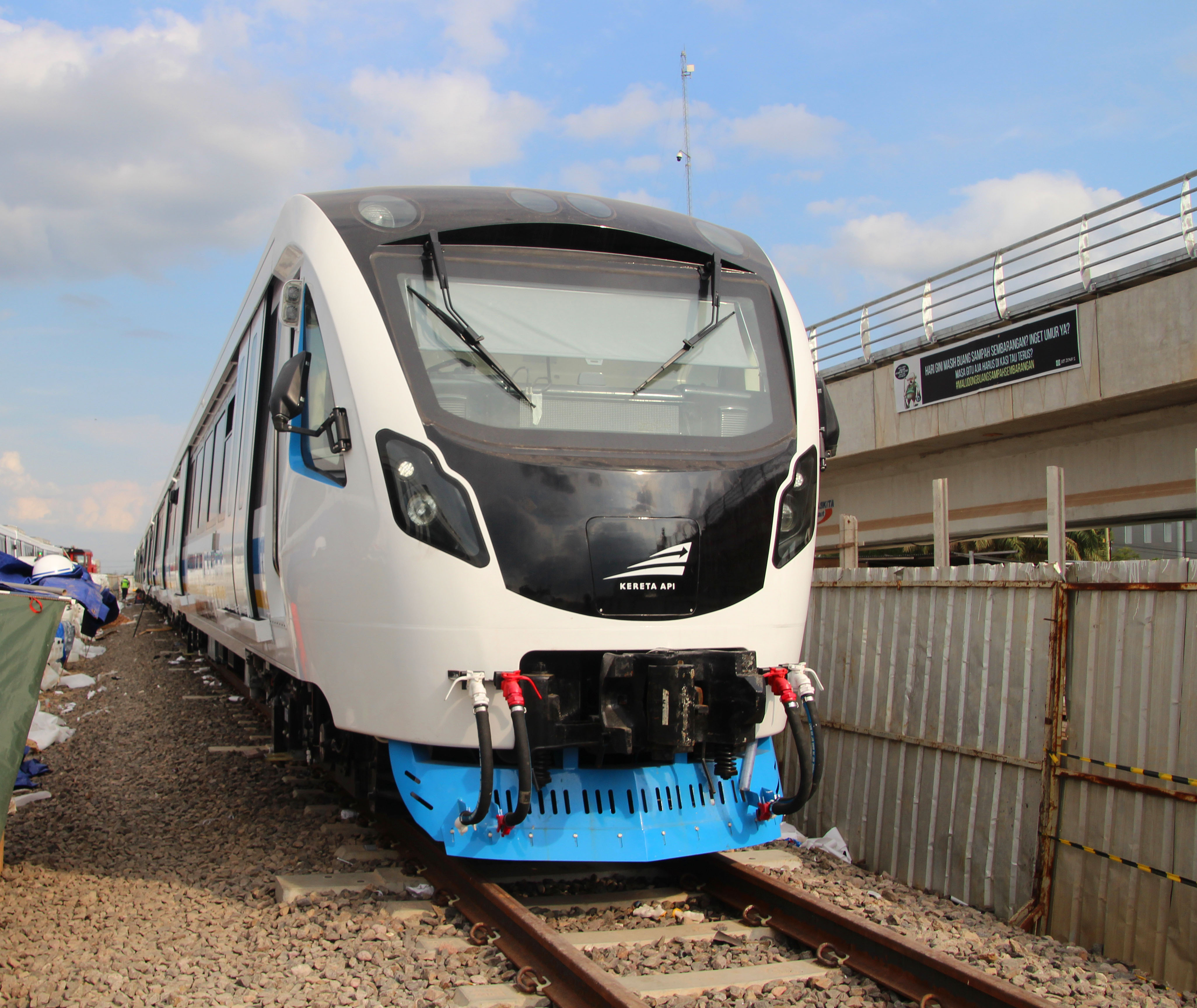 LRT Palembang train made by PT Inka, parked at LRT Depo in Jakabaring Area near OPI Mall.